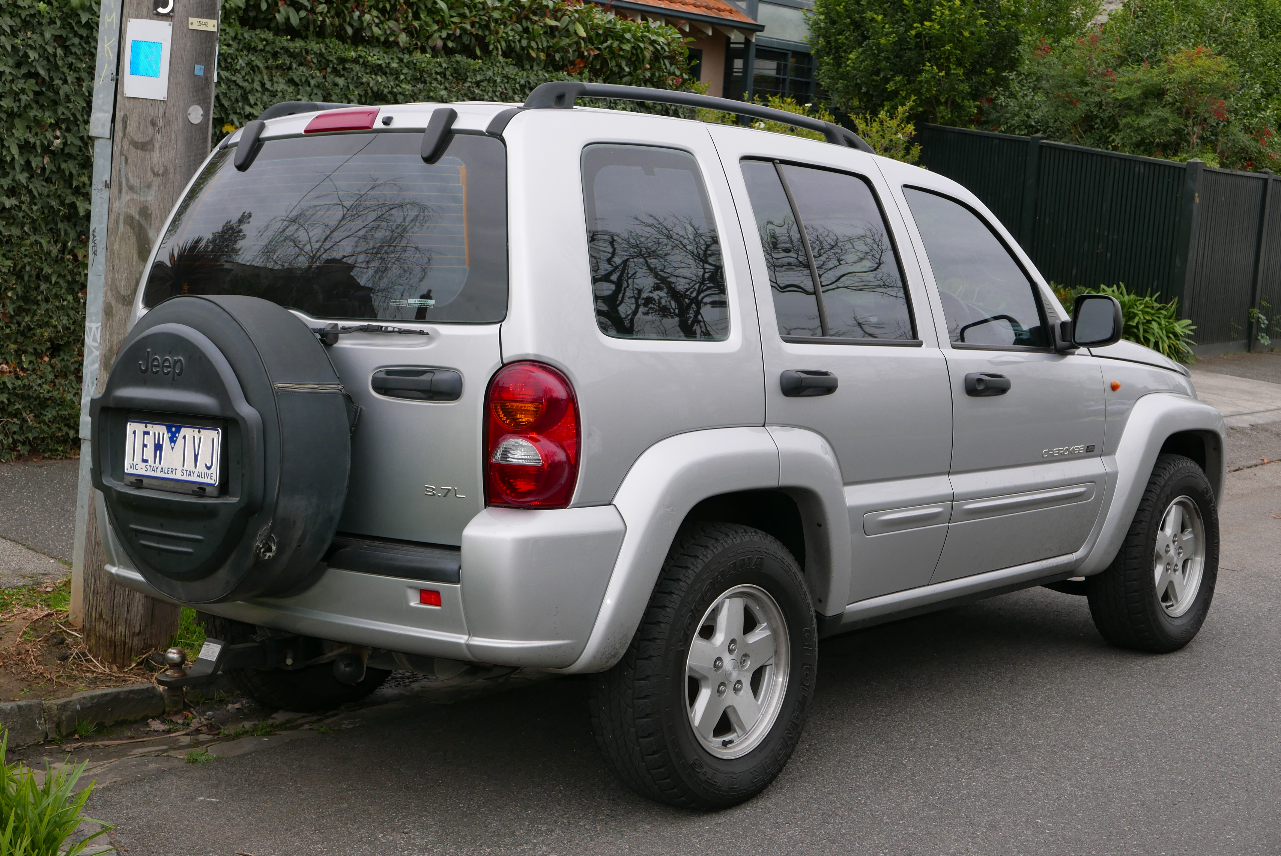 2003 Jeep Cherokee (KJ MY03) Limited Edition wagon. Photographed in Kew, Victoria, Australia. Vehicle registration enquiry resultsJurisdictionVictoriaRegistration1EW1VJChassis code1J8GM58K83W637864Engine code3W637864Compliance date2003-07Year of manufacture2003